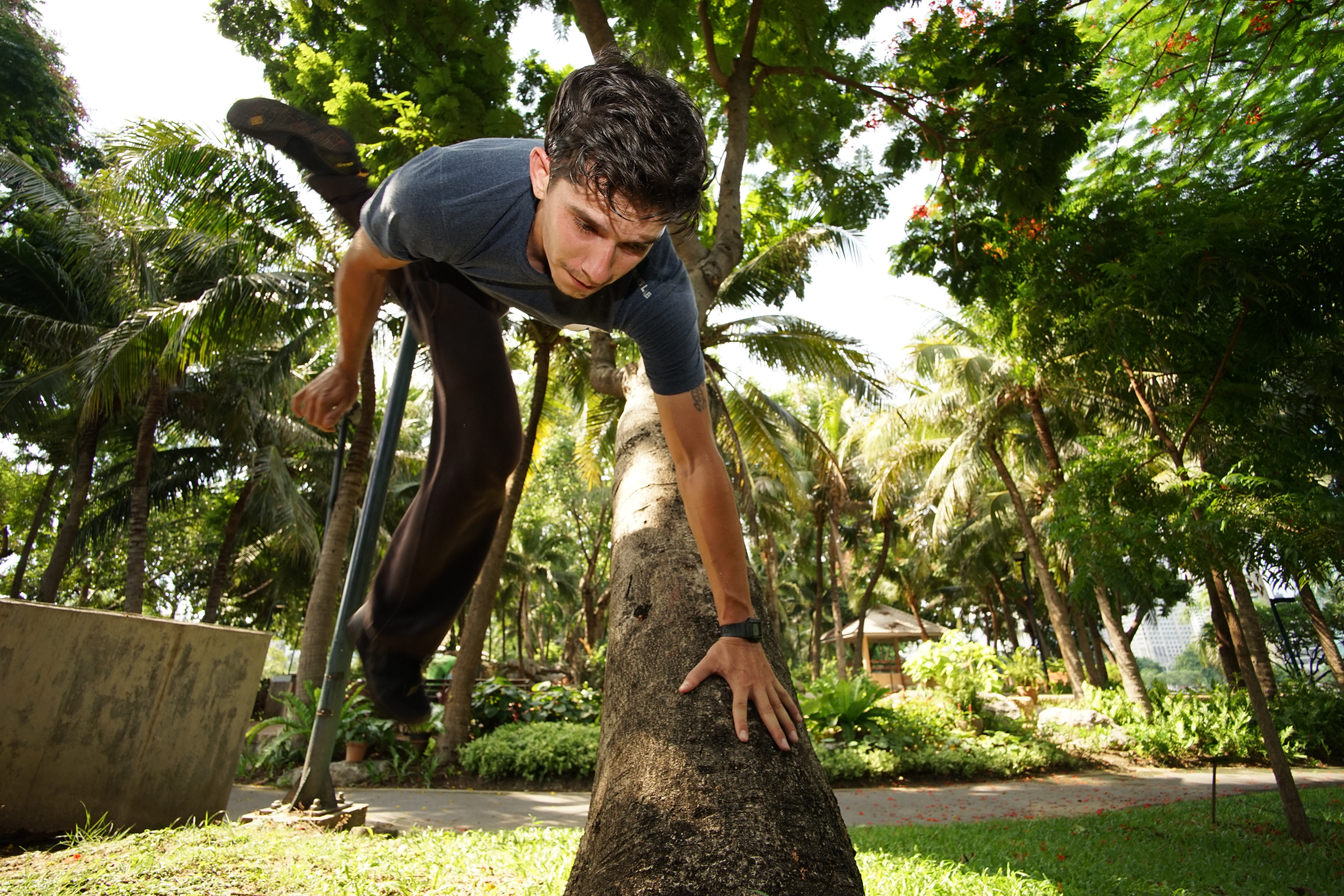 Original Parkour